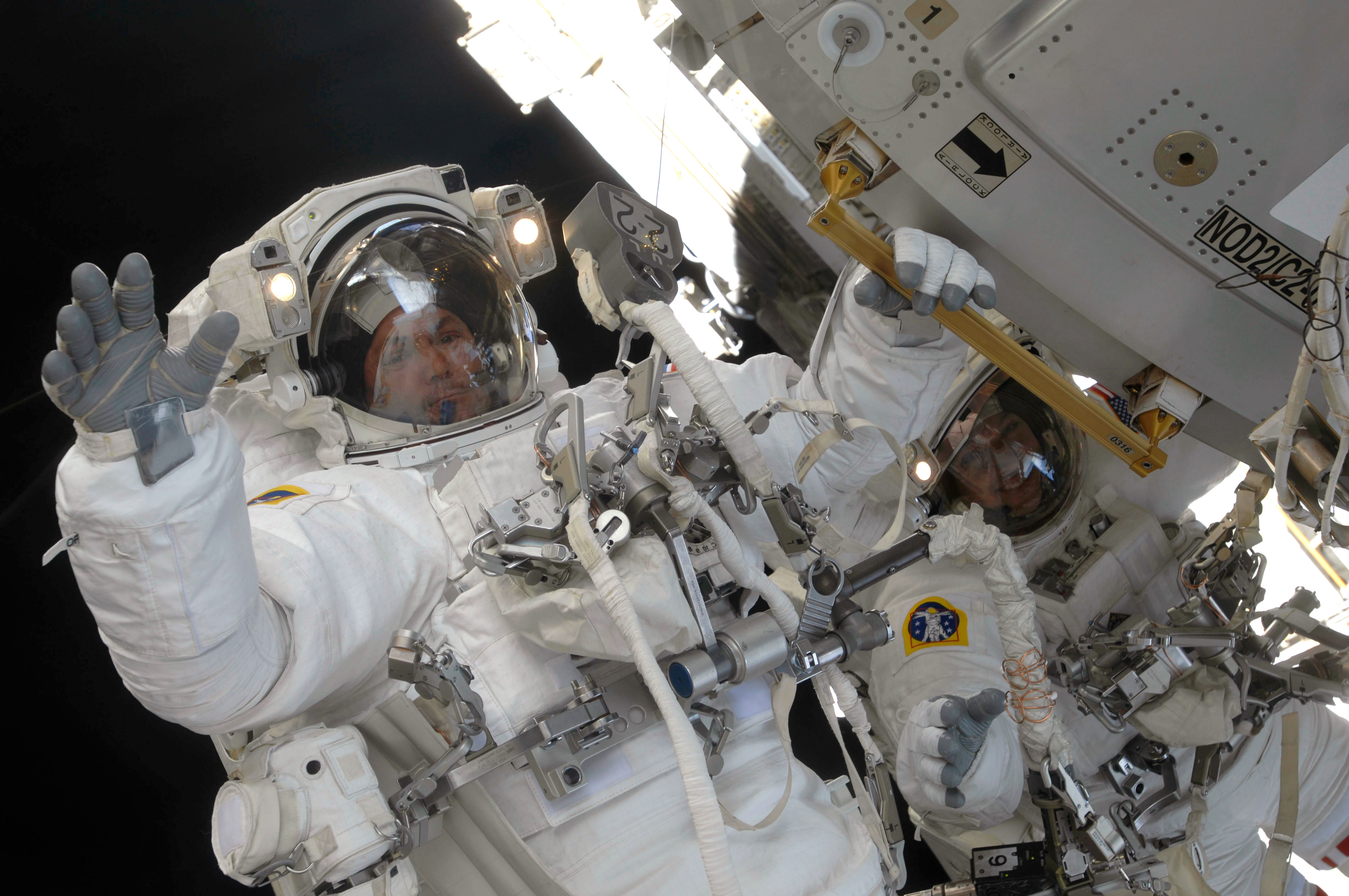 Astronaut Mike Foreman, STS-129 mission specialist, waves at a camera-bearing crewmate during the second space walk of Atlantis' visit to the international Space Station. Astronaut Randy Bresnik is seen on the right side of the frame. Foreman holds onto a handrail on the U.S. Node 2 or Harmony.